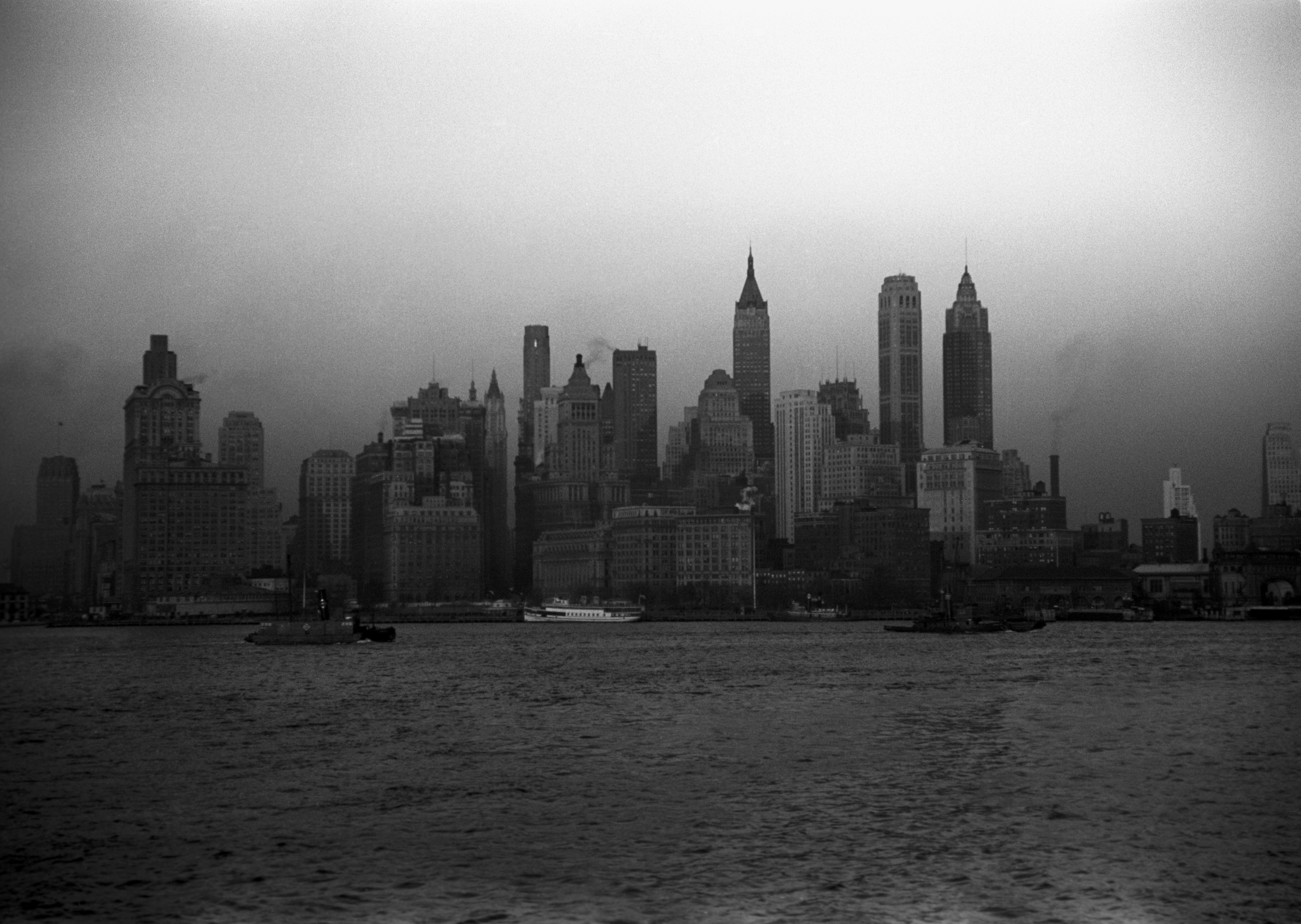 Lower Manhattan seen from the S.S. Coamo leaving New York.